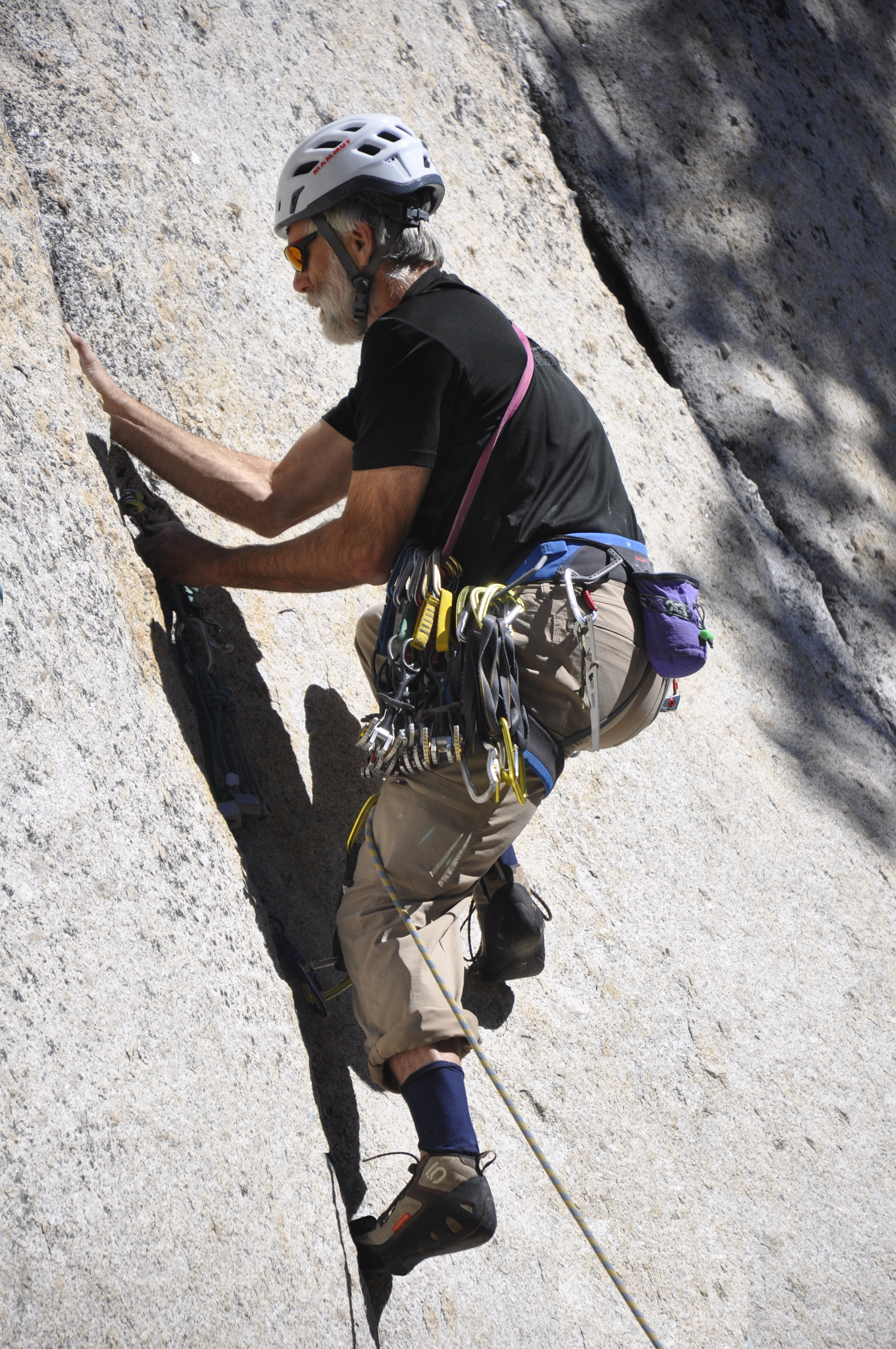 Climber climbing Guide Cracks on Daff Dome. Tuolumne Meadows section of Yosemite National Park.